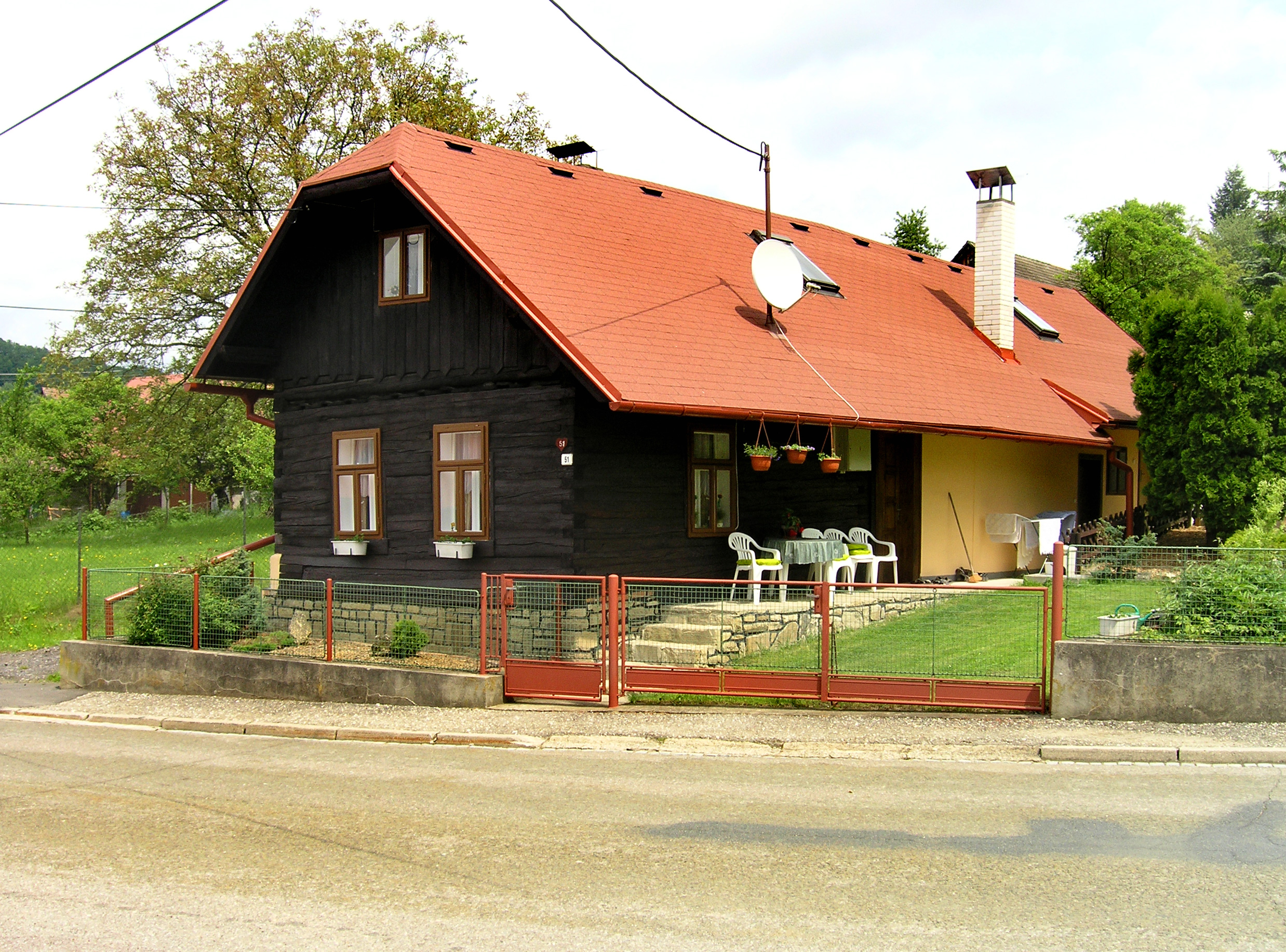 Ublo village, Czech Republic